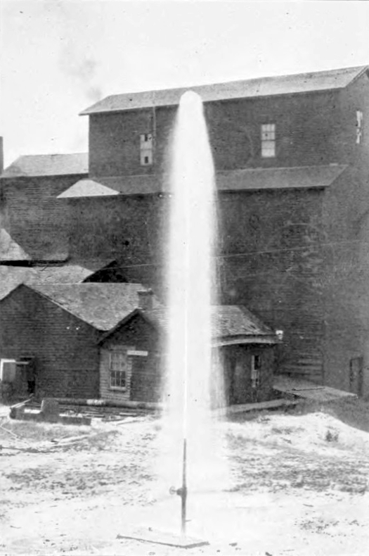 Illustration in History of Iowa From the Earliest Times to the Beginning of the Twentieth Century